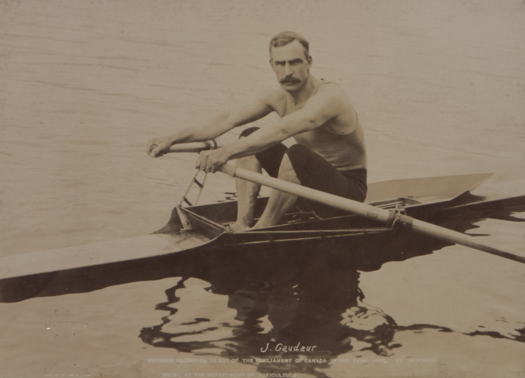 Jacob Gill "Jake" Gaudaur, Sr., one of two native Canadians to win the Professional World Sculling Championship. Gaudaur was born in Orillia, Ontario, on 3 April 1858. His first race was when he was aged 17 years and over his career he raced more than two hundred times. His professional career started in 1880.